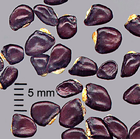 Akebia quinata seeds